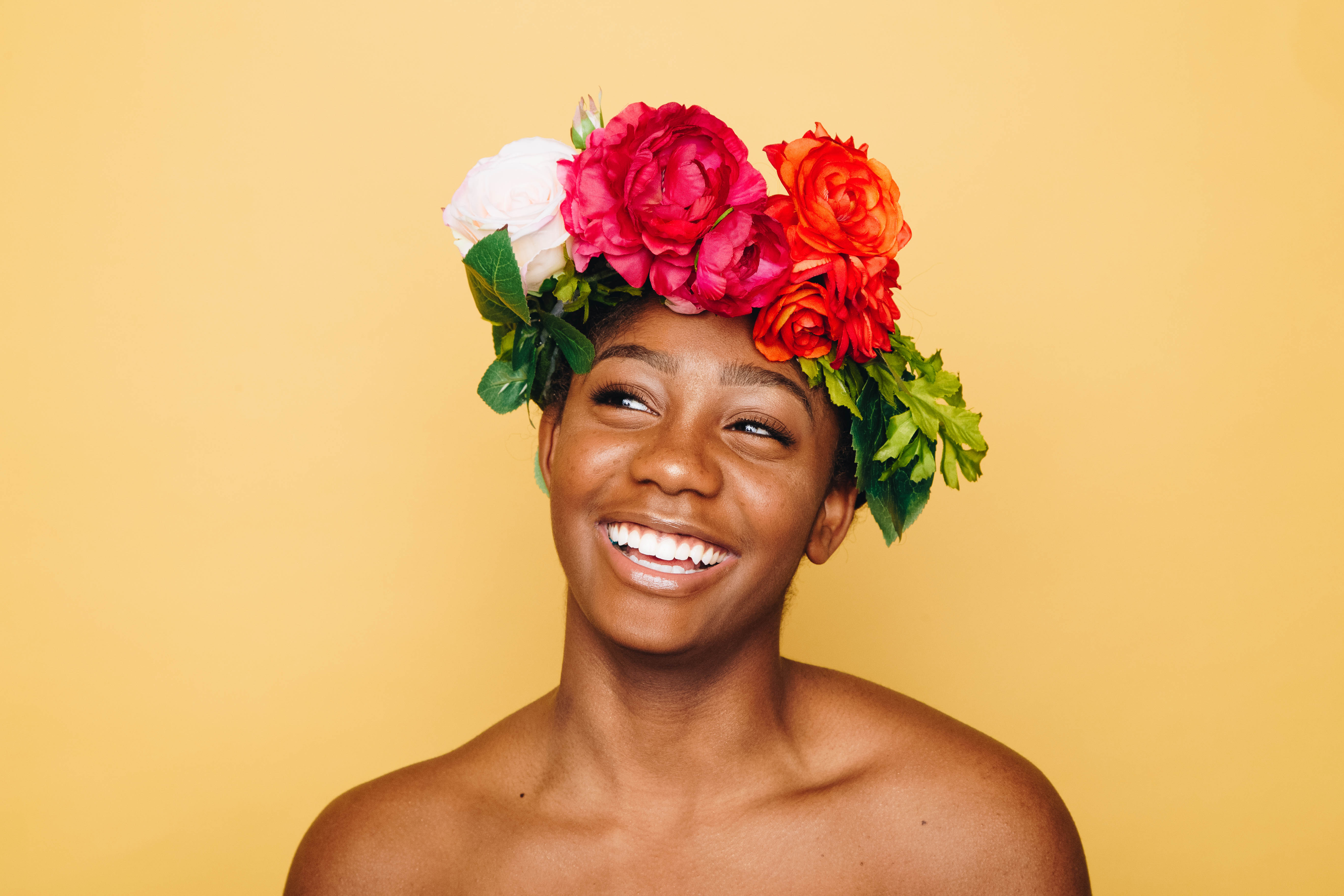 Autumn Goodman 2017-04-19